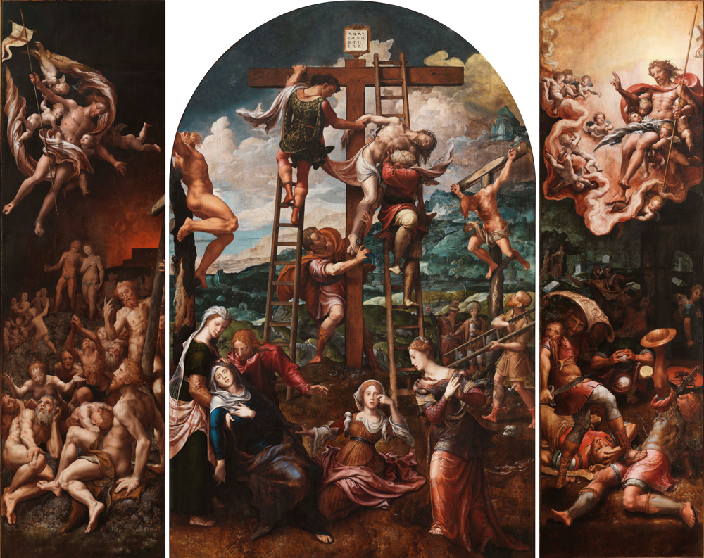 Triptych of the Descent from the Cross